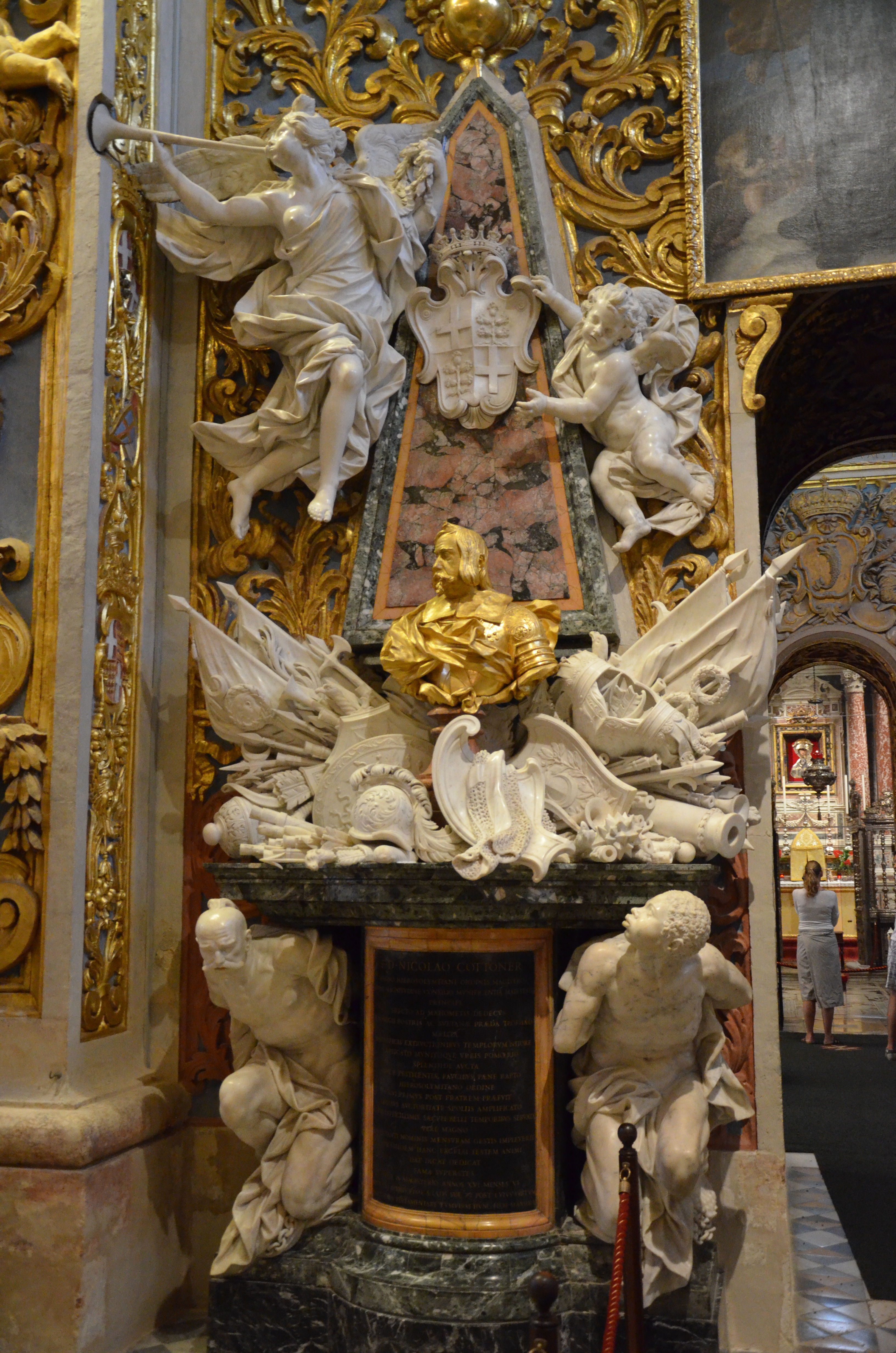 The monument of Grand Master Nicola Cottoner at the Chapel of Aragon. St. John's Co-Cathedral.